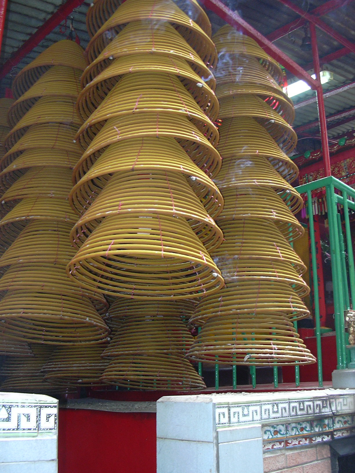 Small Temple on Peel Street (2004)